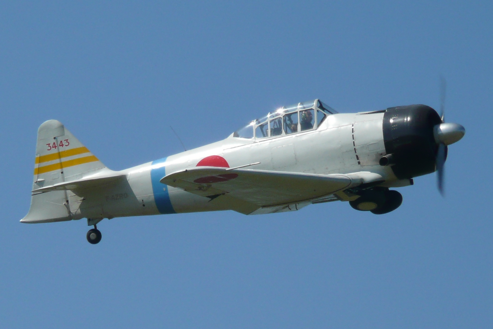 Mitsubishi A6M "Zero" Replica based on a North-American T6 "Texan". Picture shot at La Ferté-Alais Air Show (France).